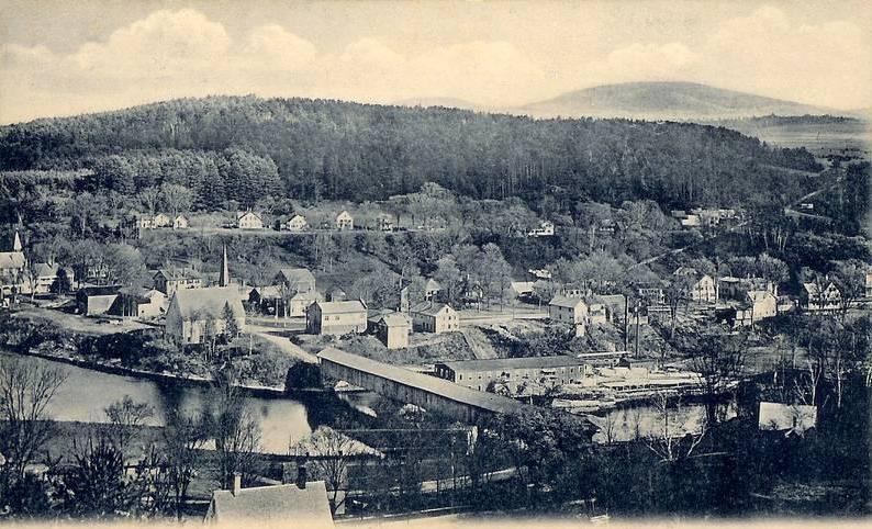 Bird's-eye view of Bath, New Hampshire; from an original c. 1905 postcard.